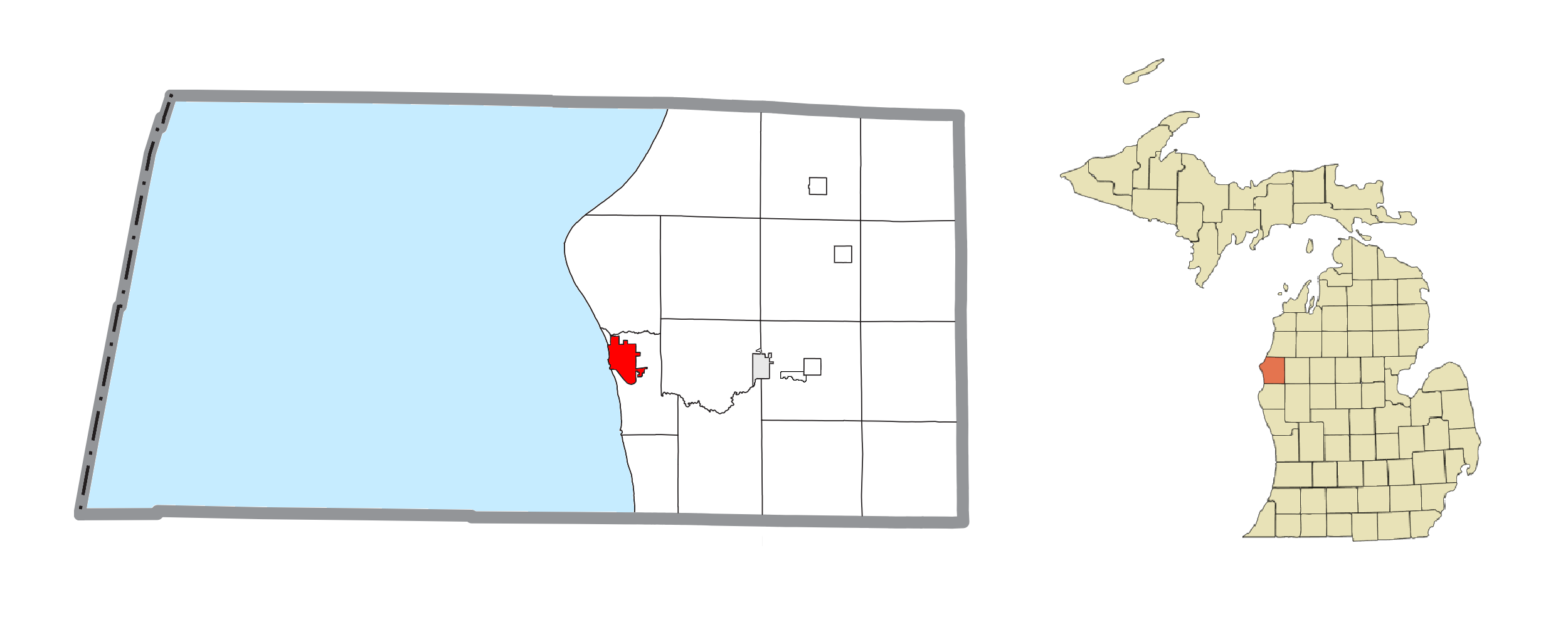 Ludington, MI